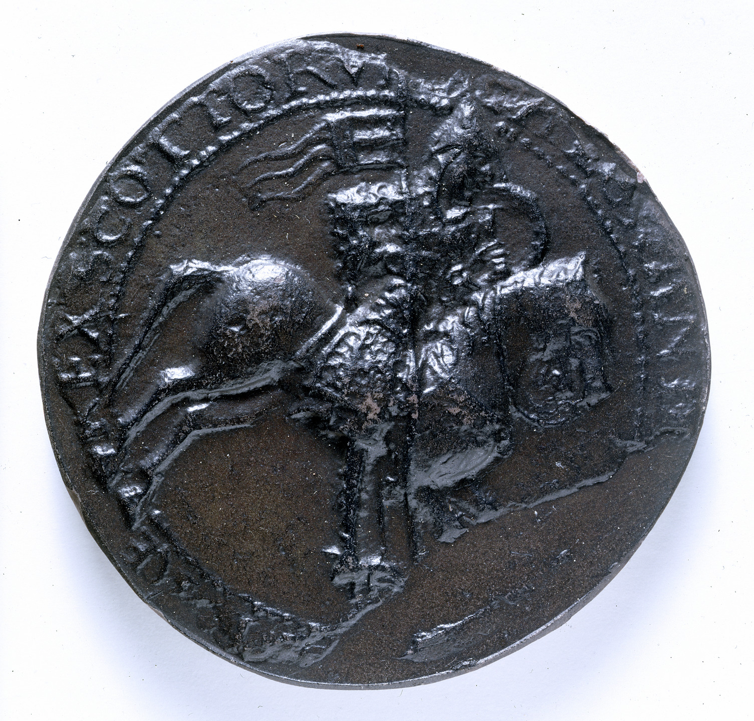 Seal of Alexander I of Scotland [Obverse of seal] Impression of the seal of King Alexander I of Scotland. The king on horseback, wearing a coat of mail, and conical helmet. He holds a gonfanon or banner with three streamers in his right hand, and a kite-shaped shield in the other